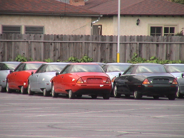 GM EV1s parked at GM's training center in Burbank, California, awaiting for crushing